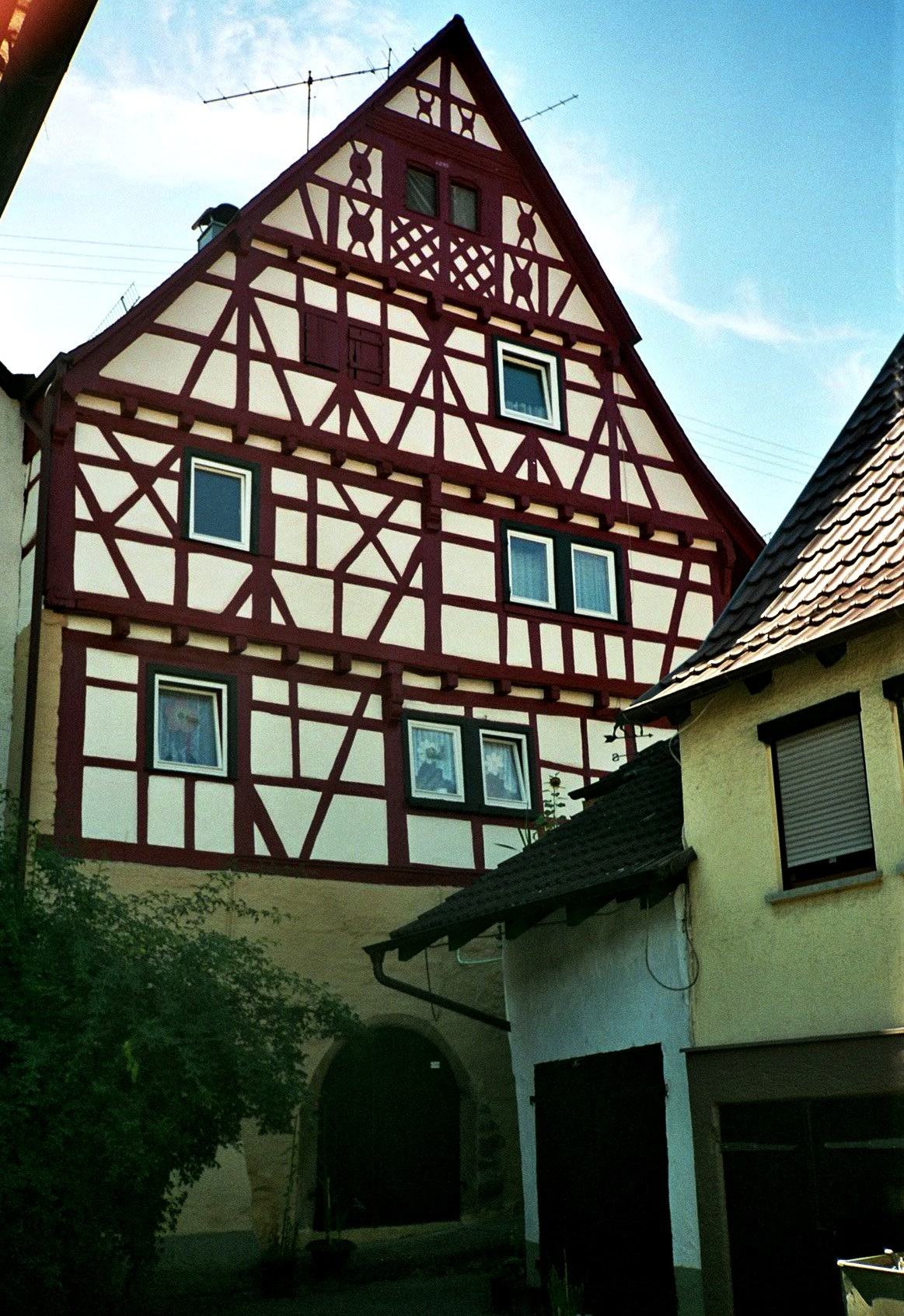 Flein Schulstraße Kornhaus 1595 Zierfachwerk-Giebel im Stil der Renaissance.JPG